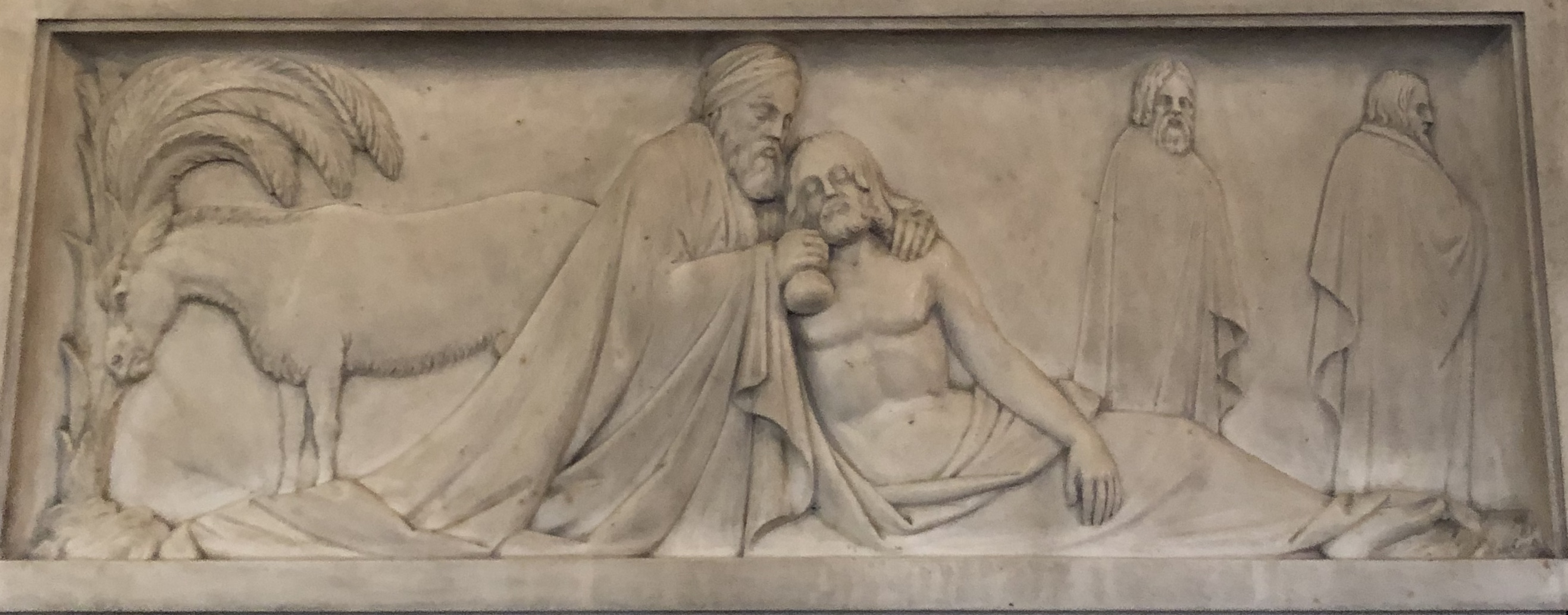 William Bruce Almon monument by Samuel Nixon, St. Paul's Church, Halifax, Nova Scotia